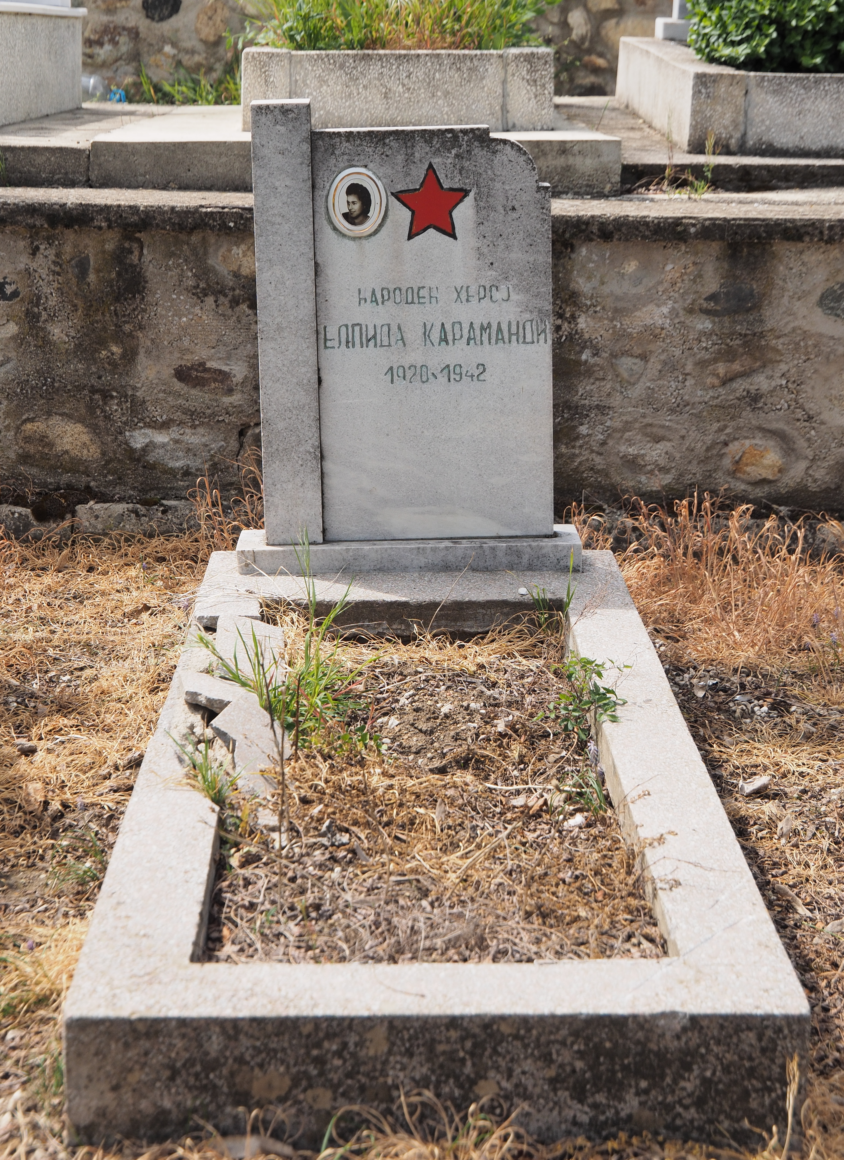 Elpida Karamandi, Bukovsko cemetery, Bitola, Macedonia. Српски (ћирилица): Елпида Караманди, Буковско гробље, Битољ.